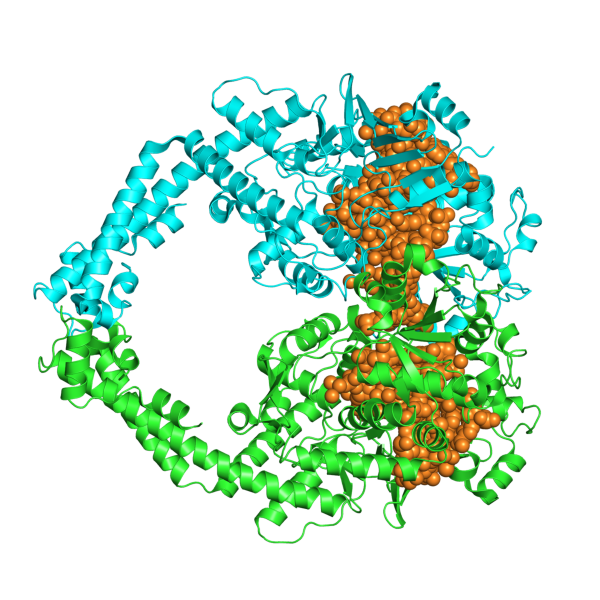 Human Topoisomerase Iibeta in complex with DNA (gold spheres). PDB entry 4j3n